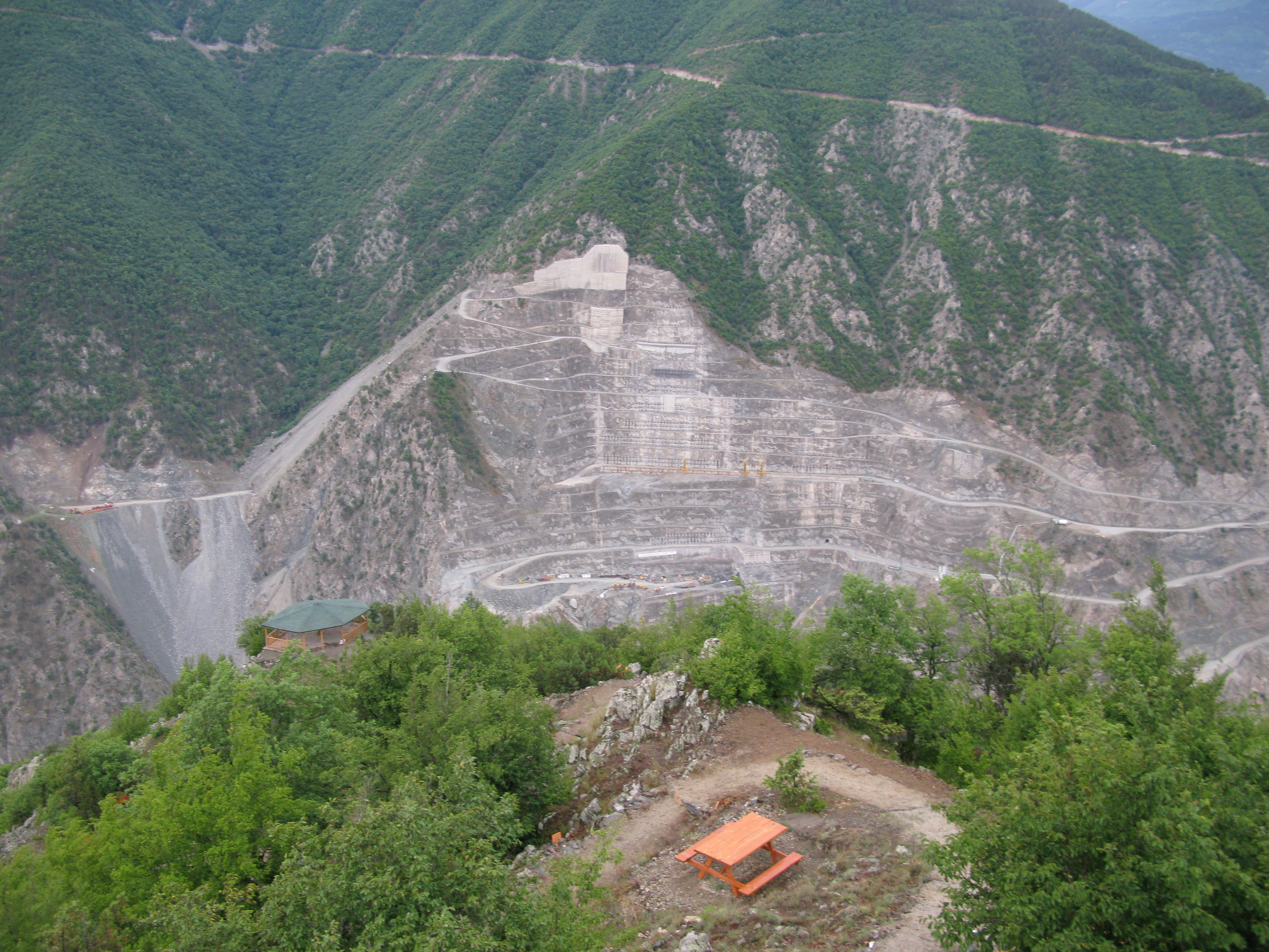 Construction site of the Deriner Dam in the Province of Artvin, Turkey.